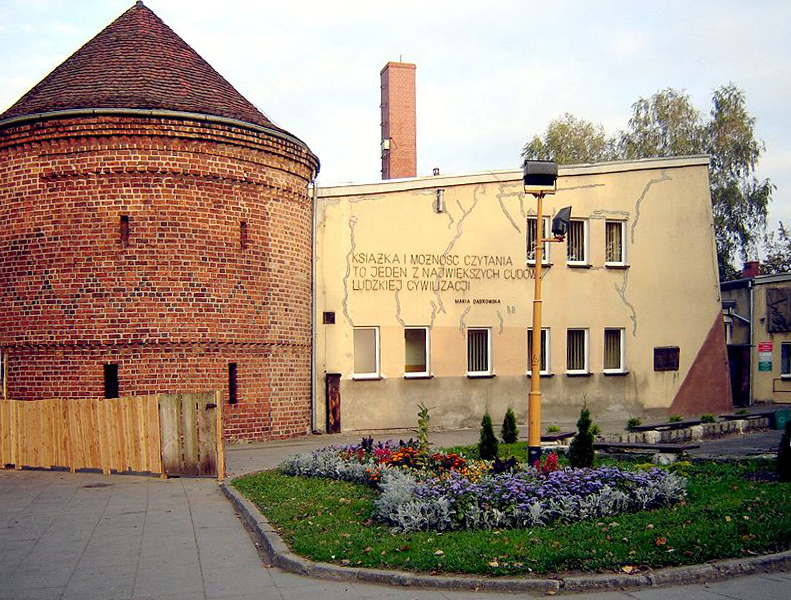 Public library attached to the historic barbicane